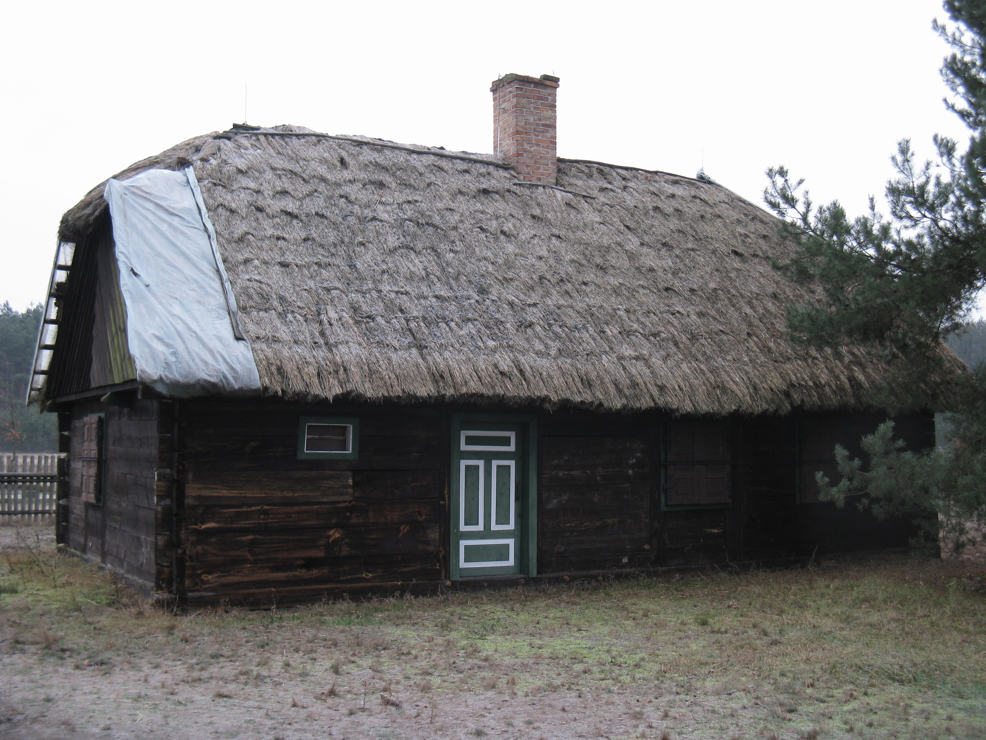 open air museum in Granica